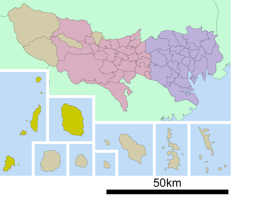 Location map of Oshima Subprefecture in Tokyo Prefecture.